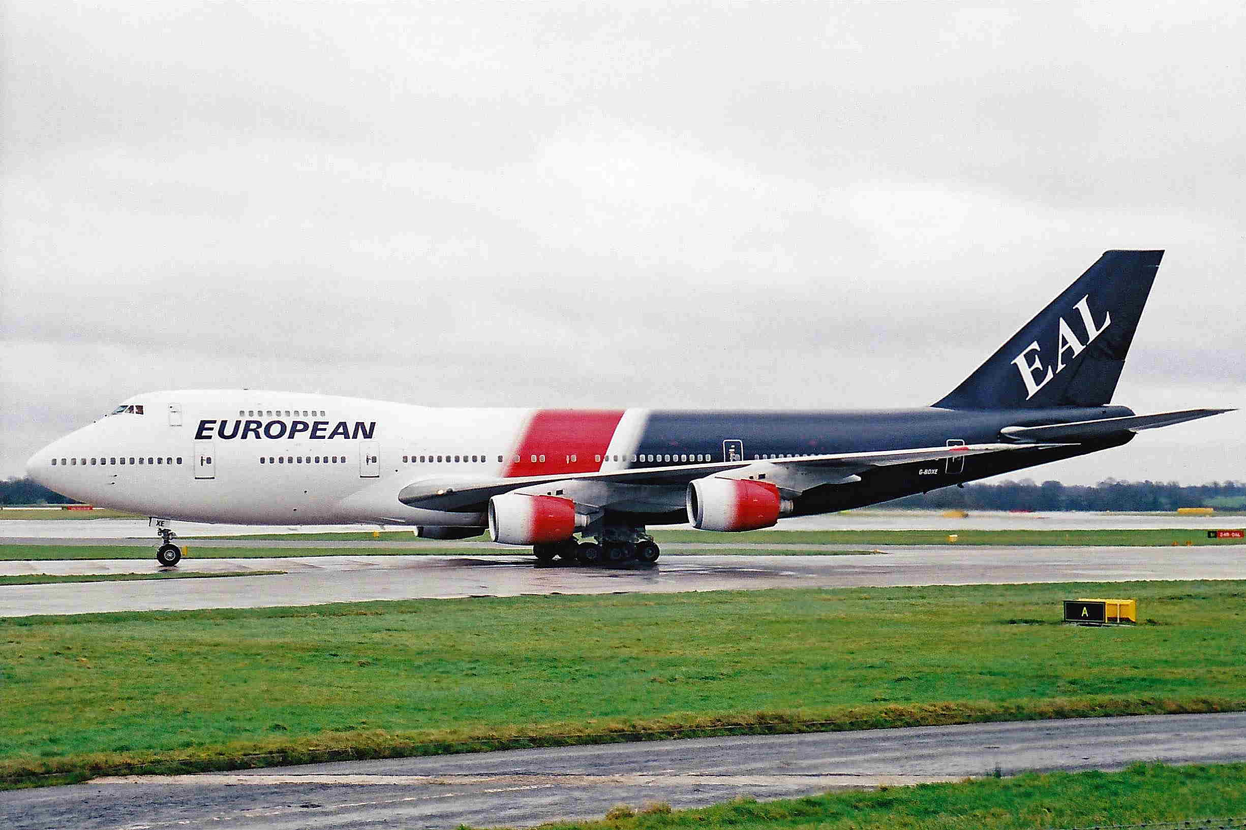 A picture of an airplane (name of it is on the file name).